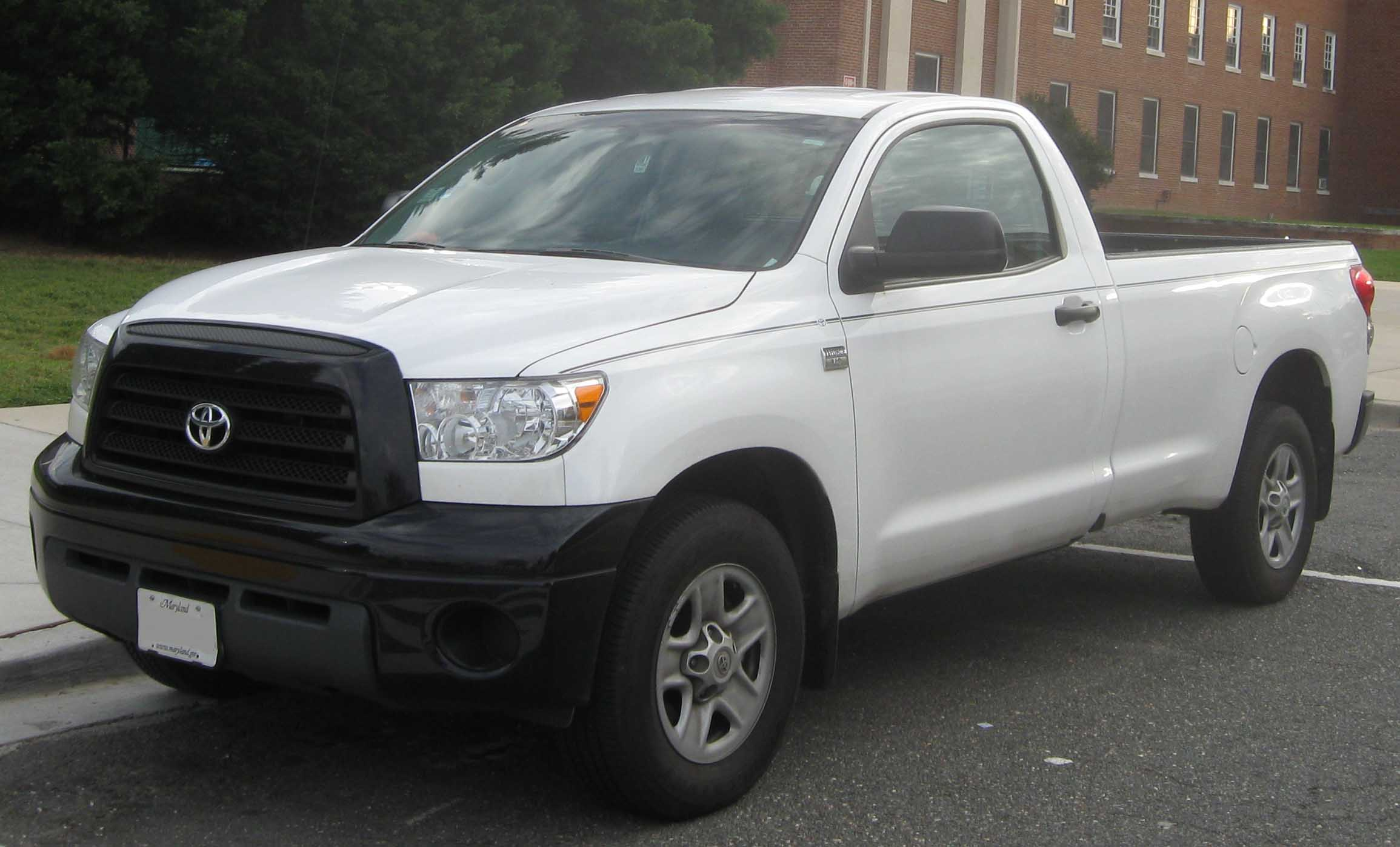 2007-2009 Toyota Tundra photographed in College Park, Maryland, USA.